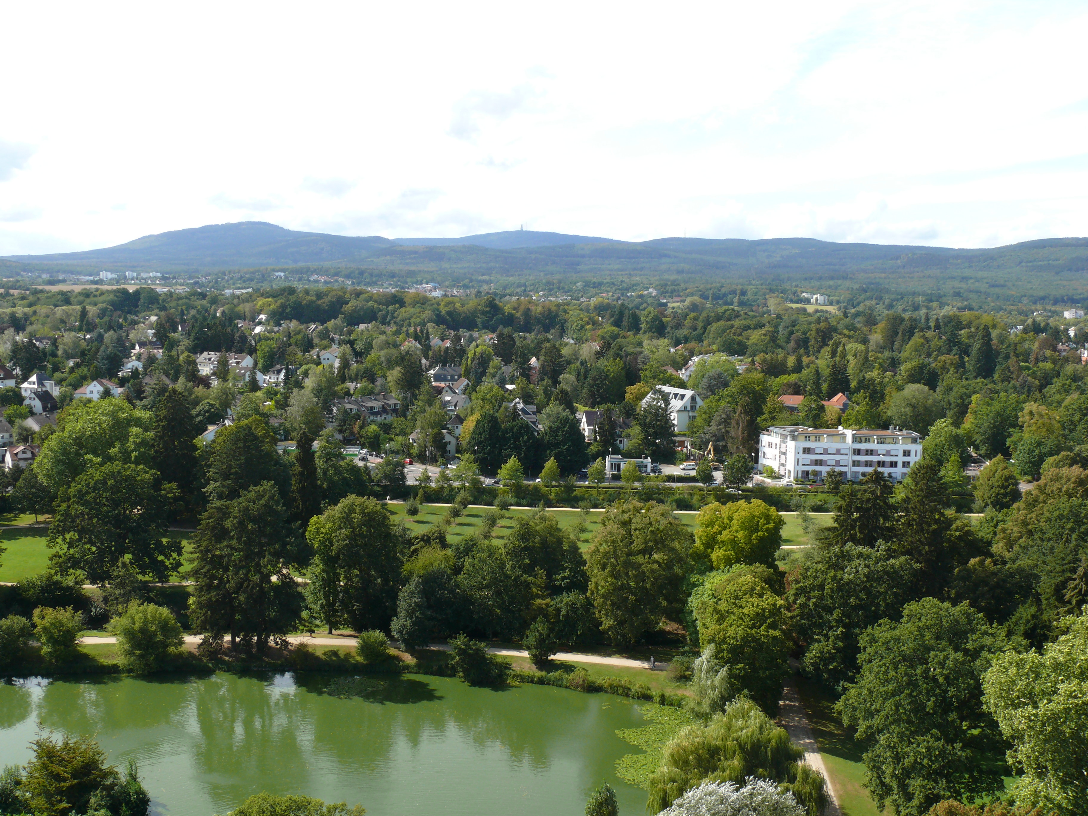 Park from the castle in Bad Homburg and view to the "Taunus". Hesse, Germany